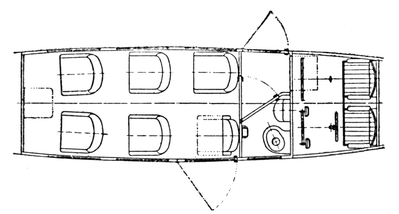 Aero A-23 cabin layout drawing from L'Aéronautique May,1928